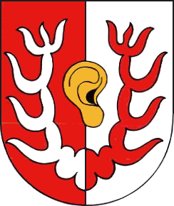 Coat of Arms of Niederspier